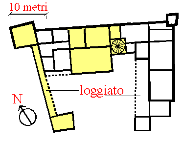 Plan of Issogne castle in Aosta Valley